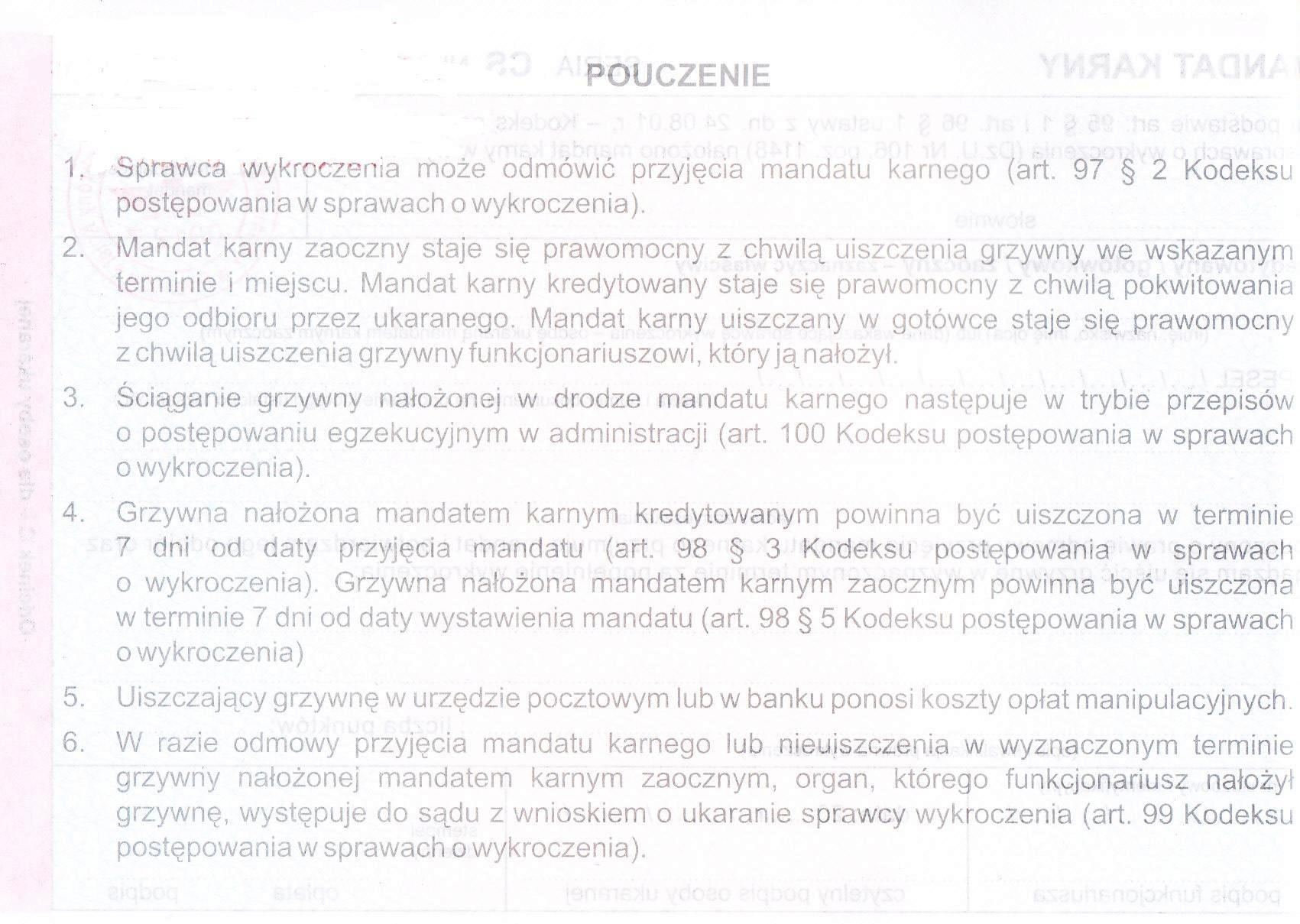 Polish fine ticket - instruction for persons sentenced